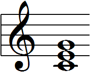 The C-major triad. Made using Capella notation program and Microsoft Paint. Category:Music images